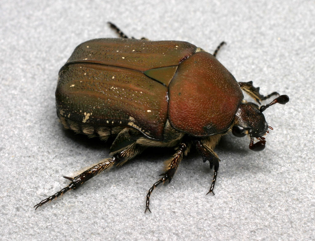 Olive Euphoria, Euphoria herbacea, captive. Location: Durham County, North Carolina, United States. Identification references: BugGuide; Dillon, Elizabeth S., and Dillon, Lawrence (1961). A Manual of Common Beetles of Eastern North America. Evanston, Illinois: Row, Peterson, and Company.